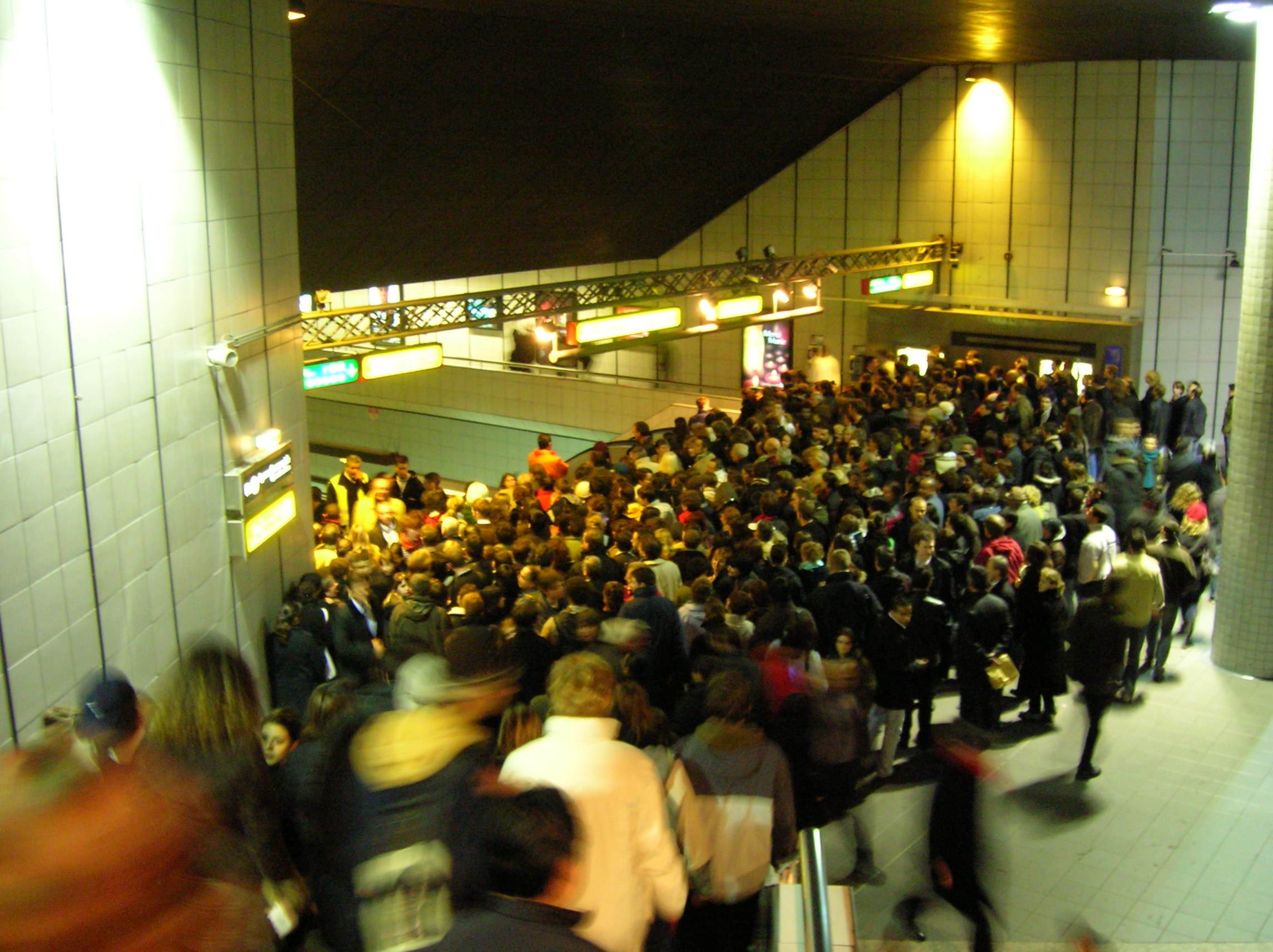 Crowd in the subway at Bellecour station after the Fête des Lumières 2006